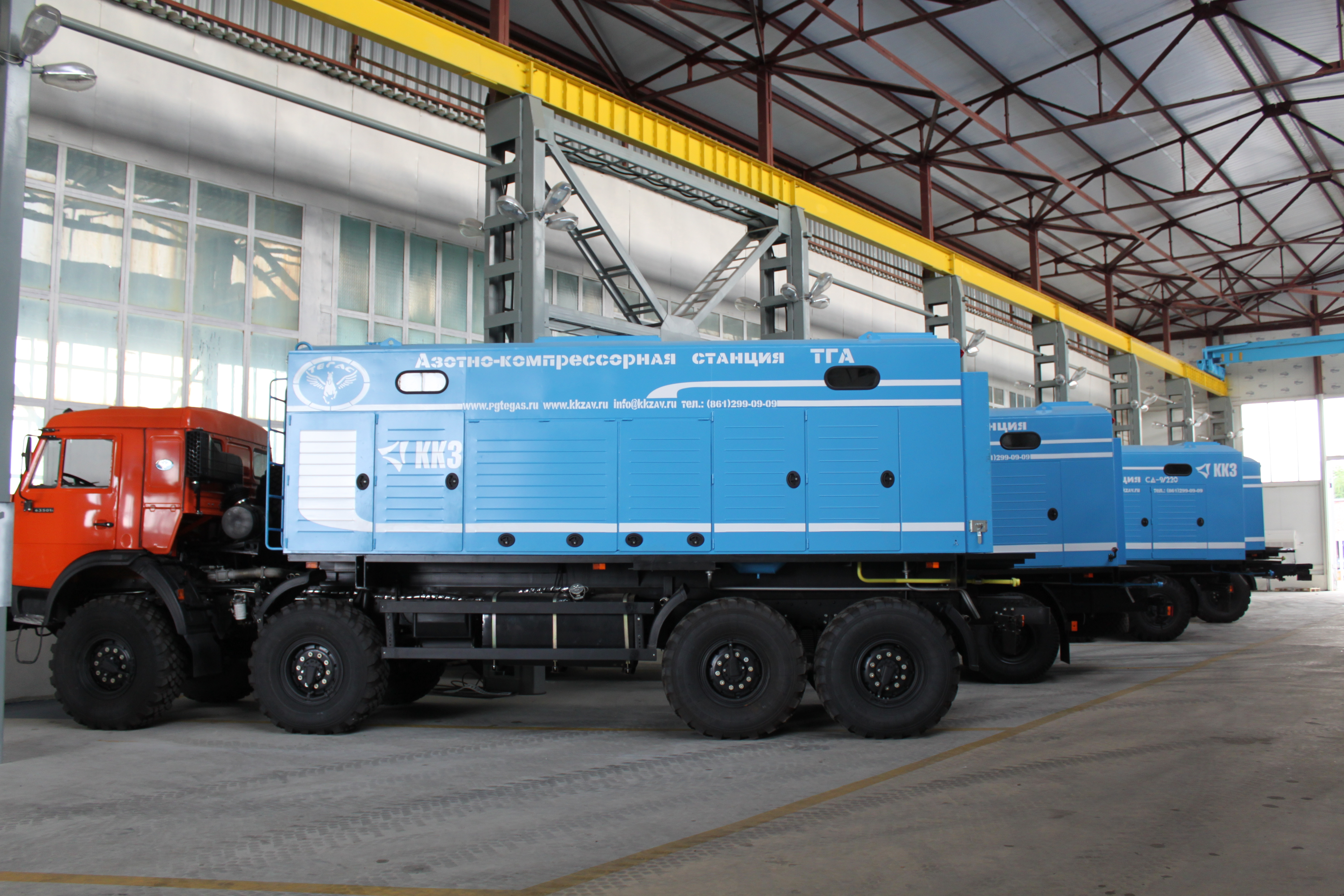 mobile nitrogen/air compressor